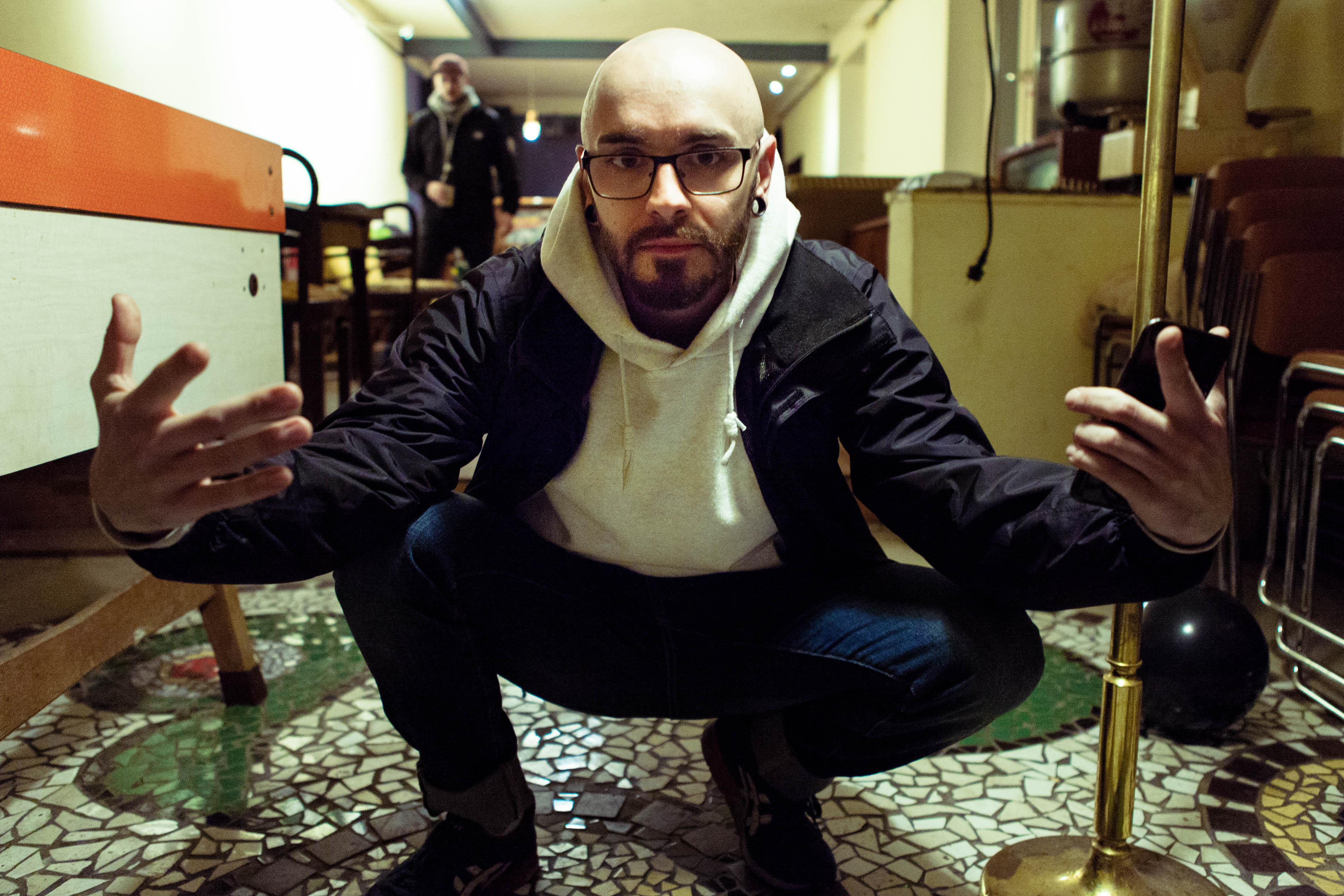 Pressefoto des Rappers Hartmann